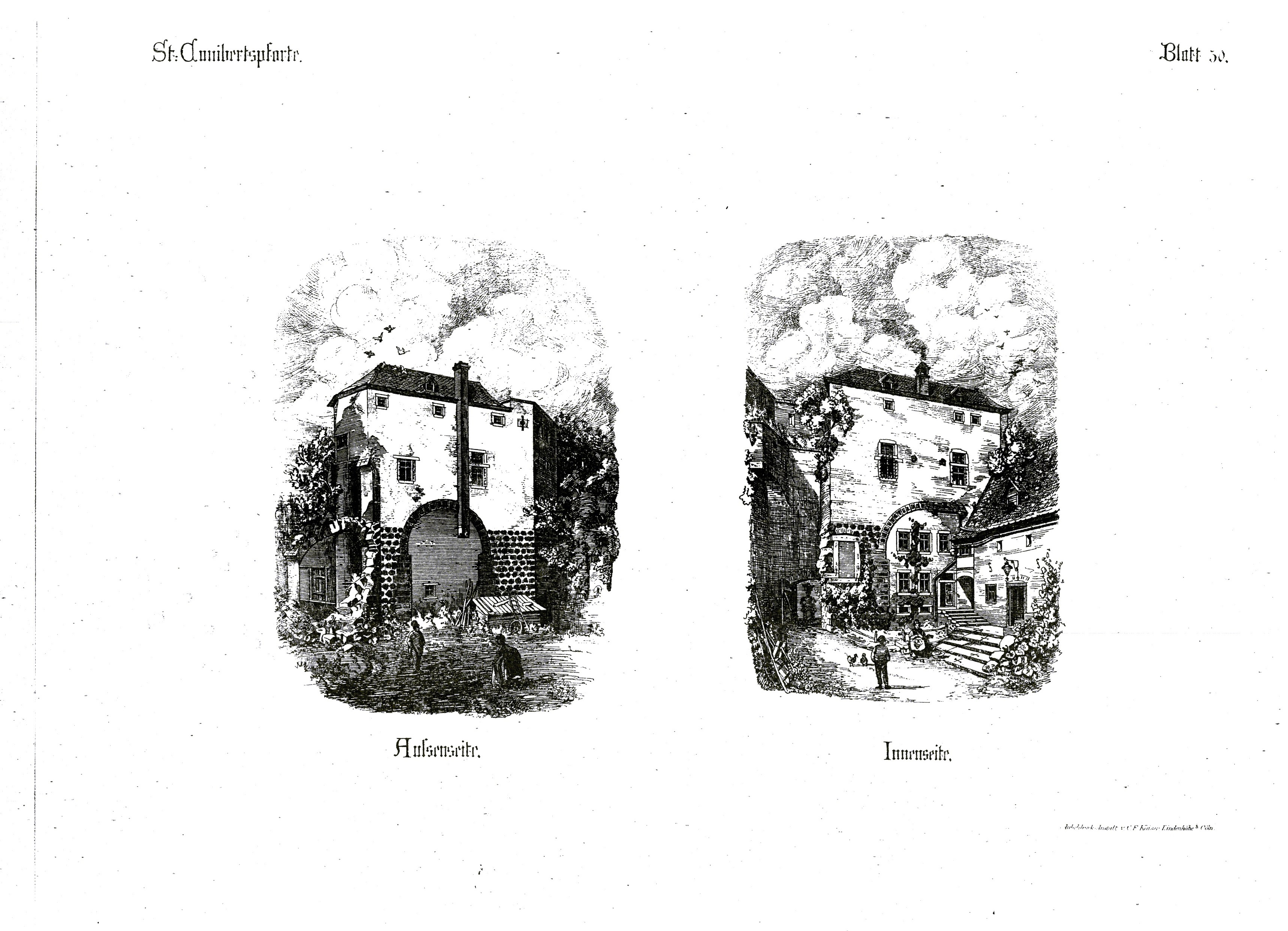 This is a scan of the historical document